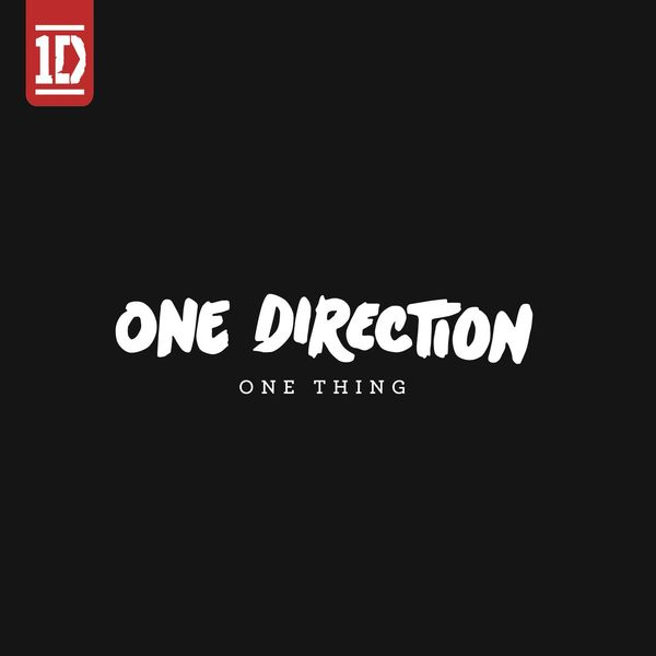 Digital single cover art of One Direction's "One Thing"